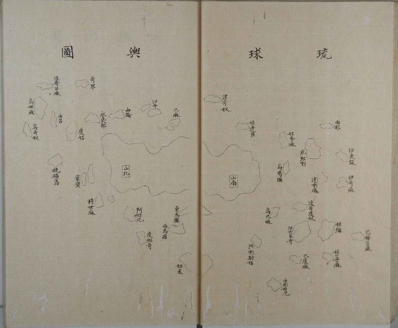 Map of Ryūkyū Kingdom from Chūzan Seifu